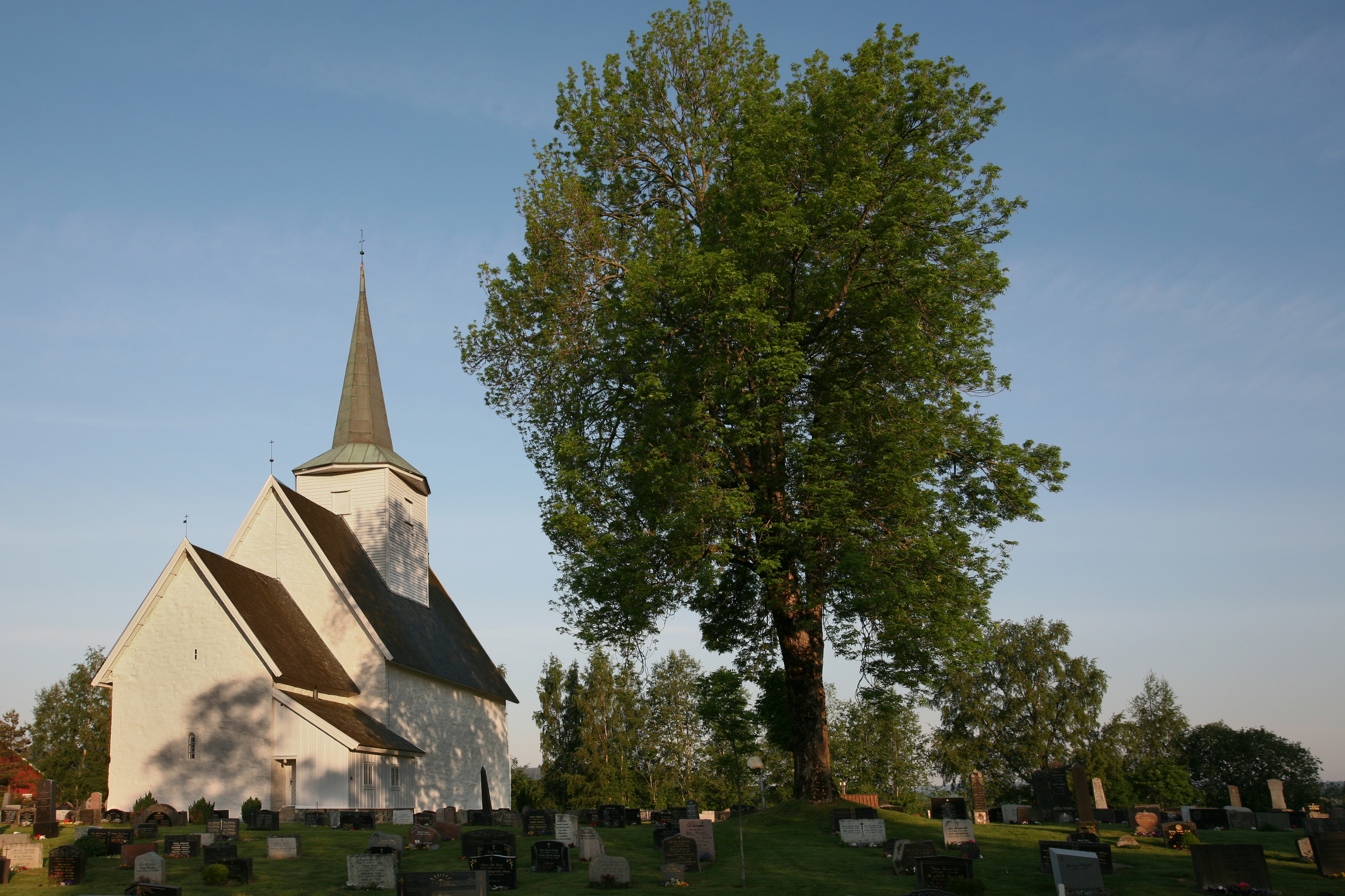 Picture of Sørum kirke (Akershus - Norway)